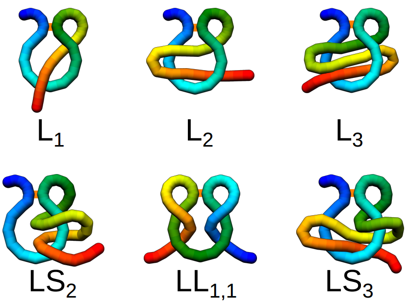 The schematic examples of complex lasso motifs.